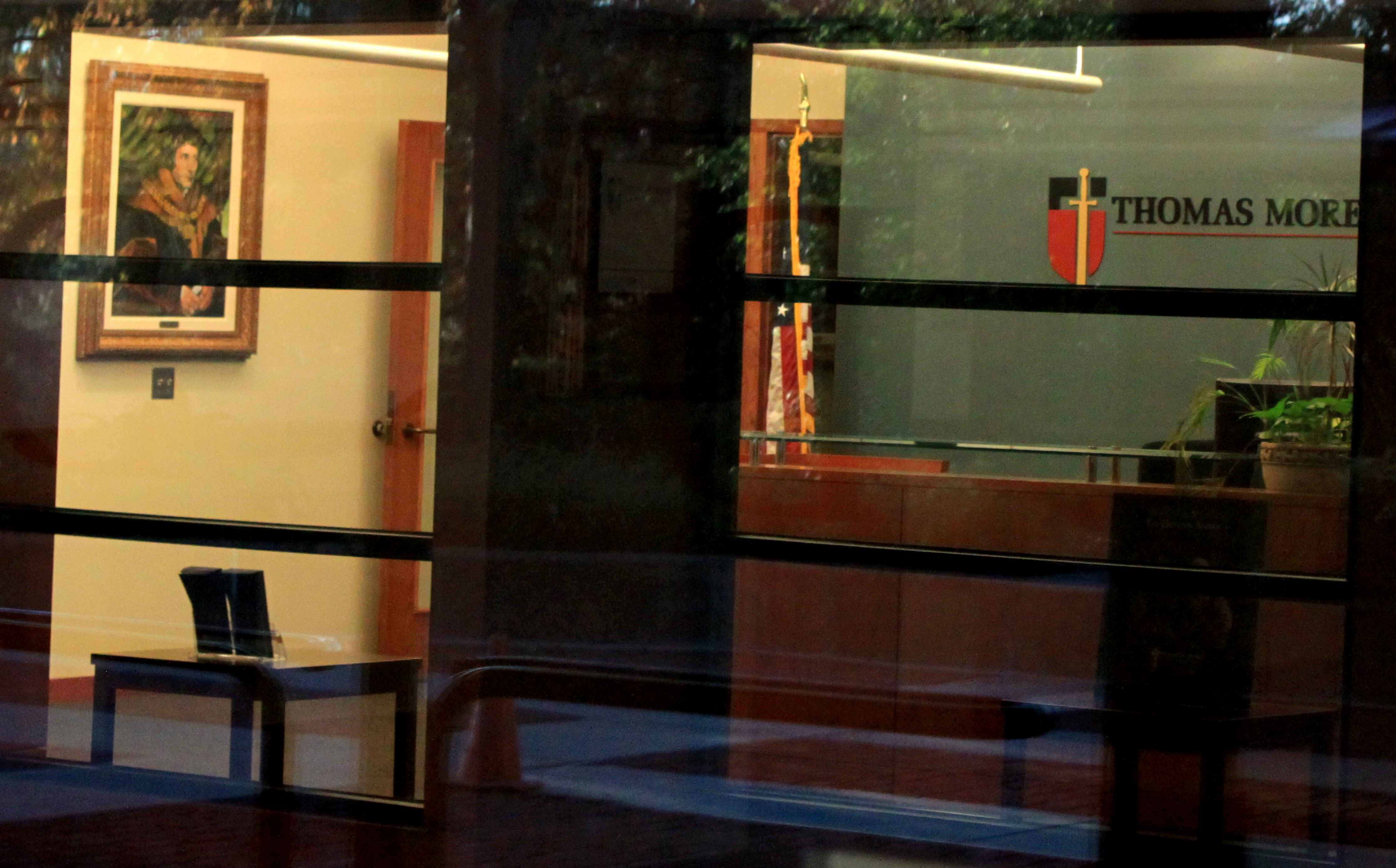 Thomas More Law Center offices lobby, Domino Farms, 24 Frank Lloyd Wright Drive, Ann Arbor Township, Michigan